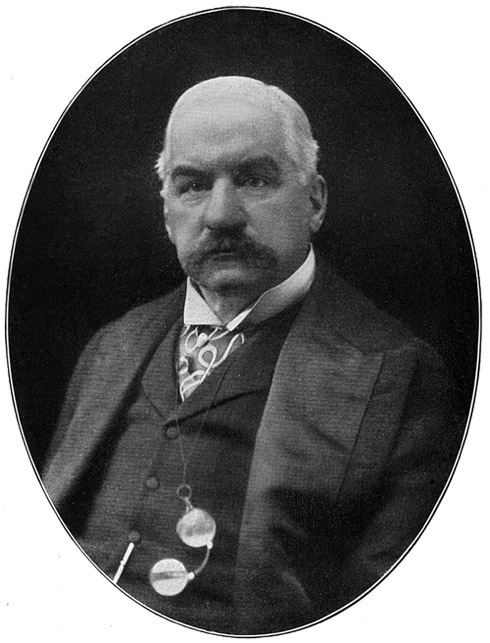 J. P. Morgan photo from Images of American Political History, public domain.